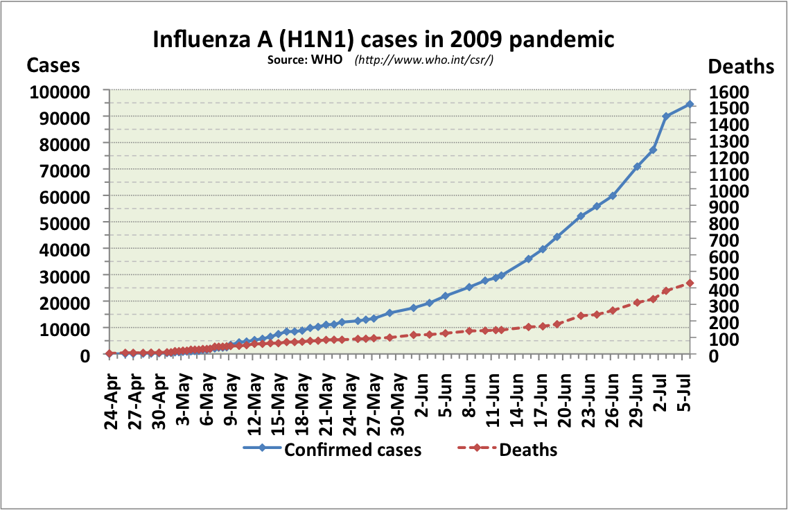 Development of confirmed reported influenza cases 2009.